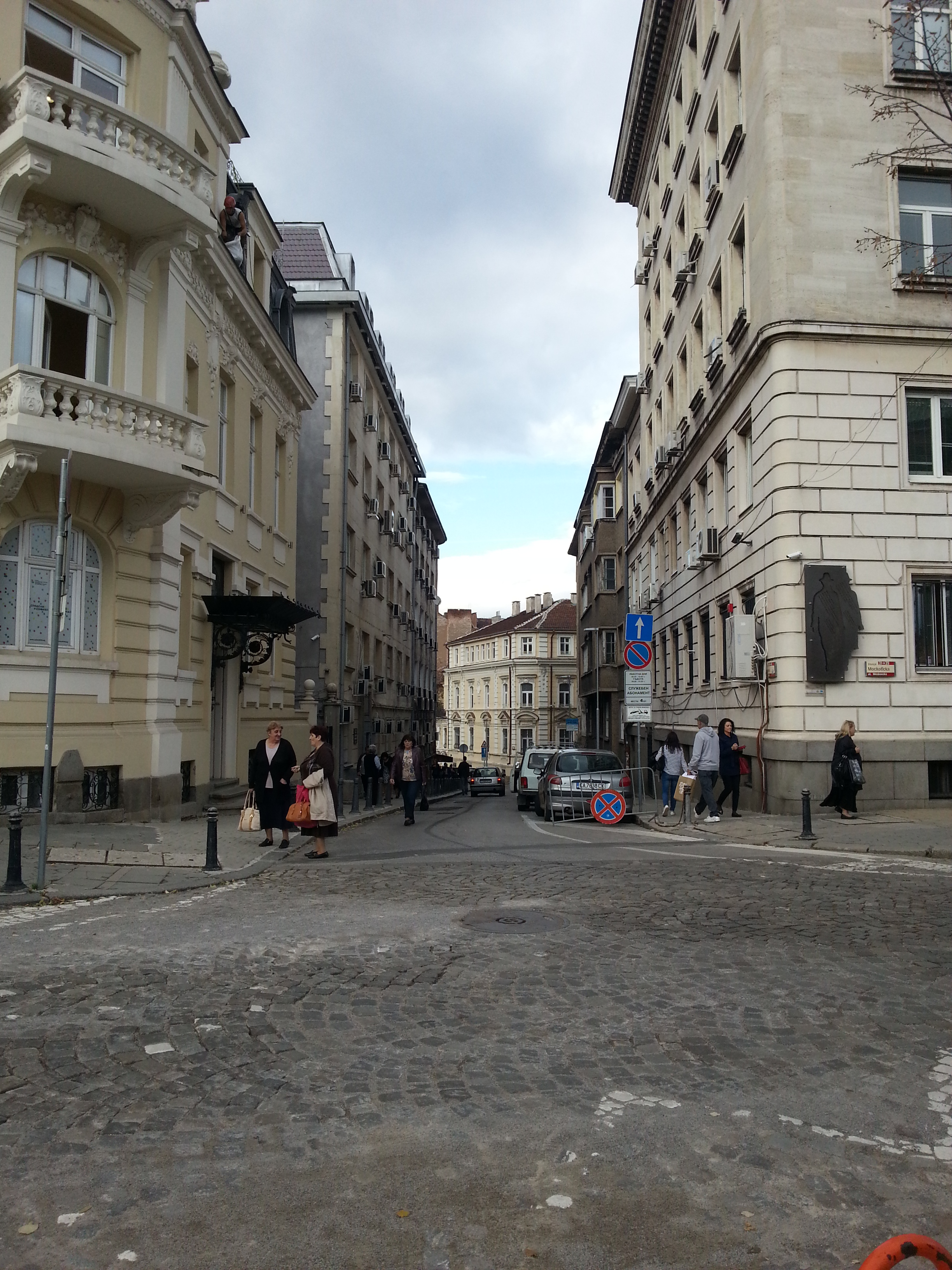 Paris Street in Sofia